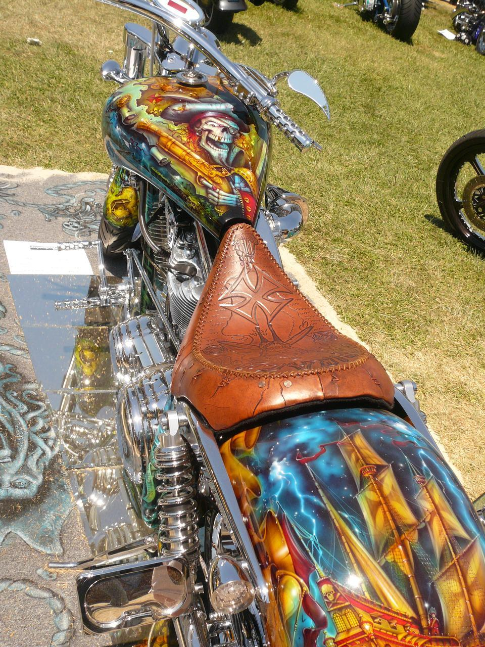 Custom painted chopper, motorcycle rally in Hollister, California 2007